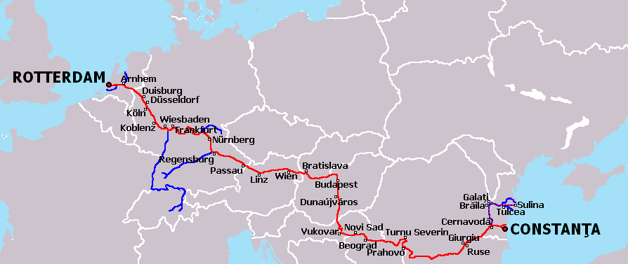 The water way Rotterdam-Constanţa - from 1992 the shortest way for ships between the North Sea and the Black Sea (labelled in Esperanto)